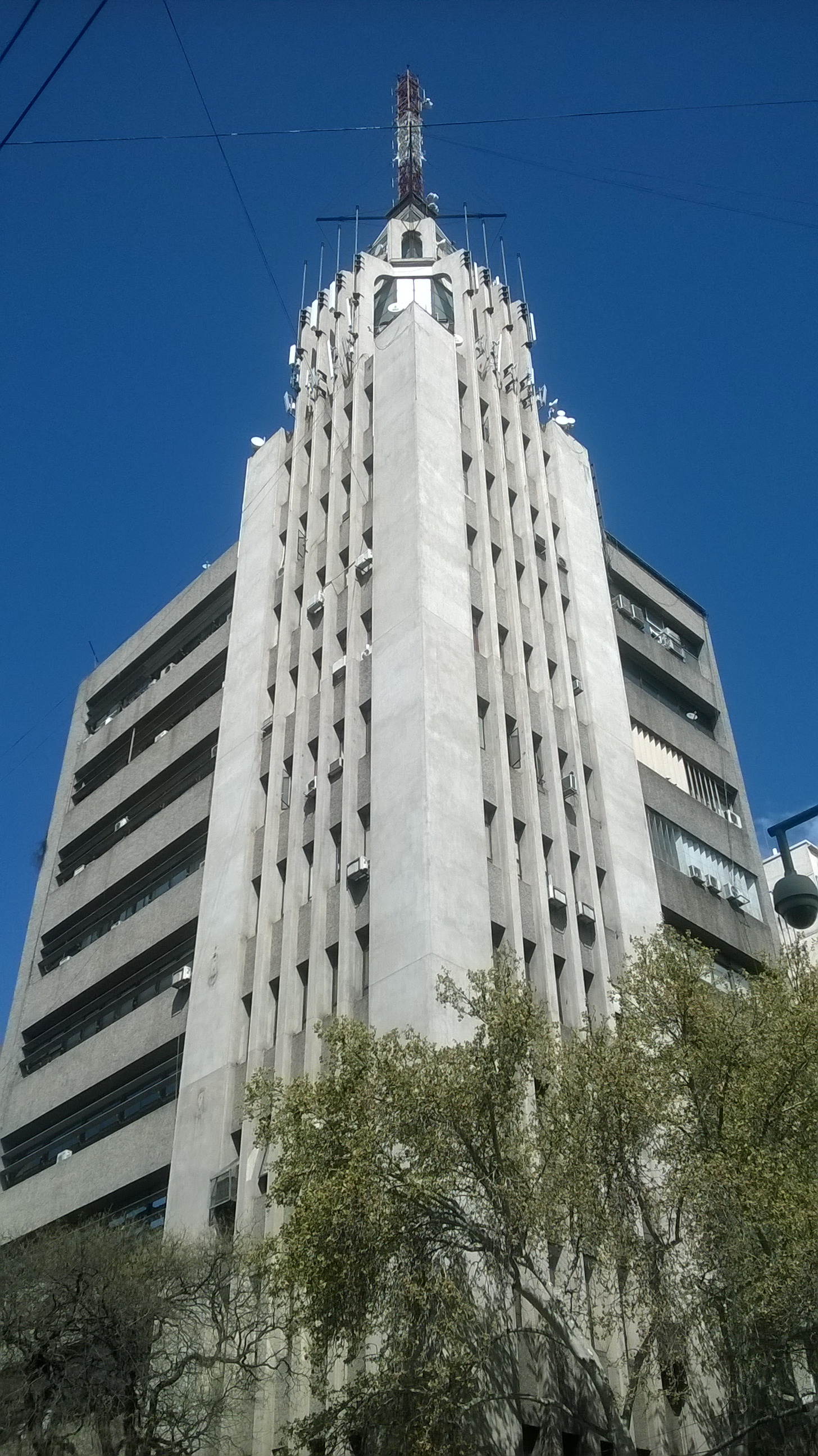 The Gómez Building, in Mendoza, Argentina. The Art Deco office building was designed by Manuel Civit and completed in 1954.